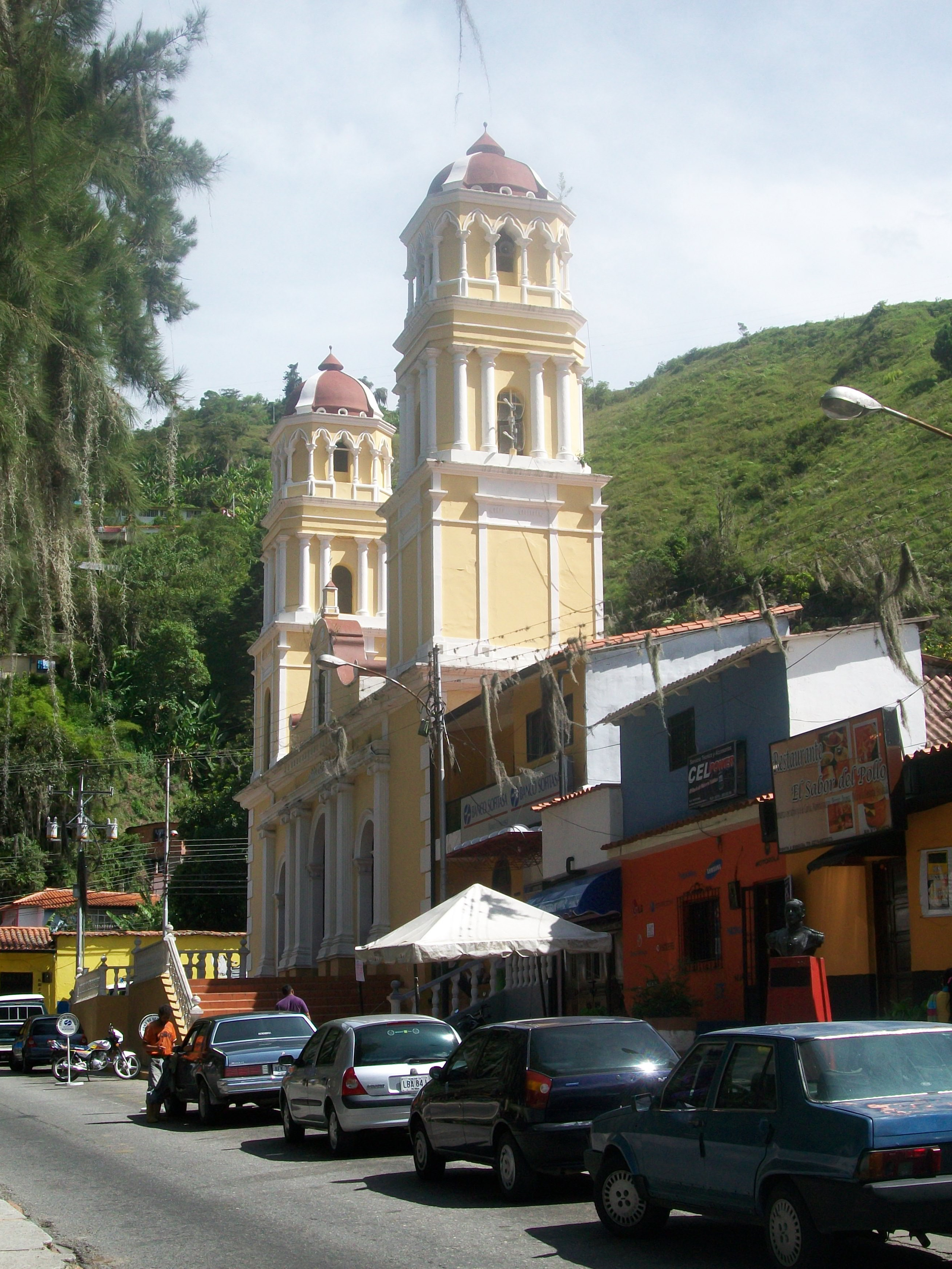 Catholic chapel in downtown Tabay, Mérida, Venezuela